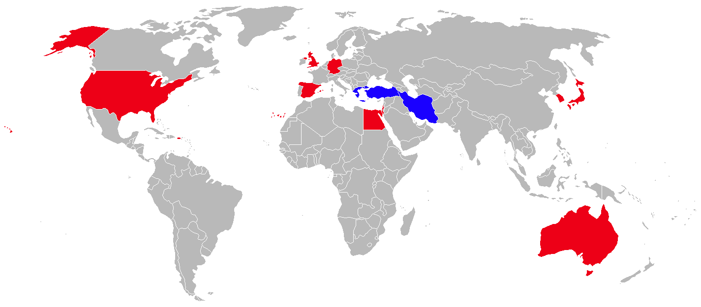 F-4 Phantom operators, as listed [1]